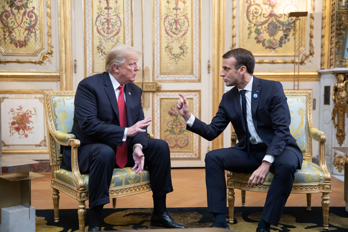 President Donald J. Trump and French President Emmanuel Macron at bilateral meeting Saturday, Nov. 10, 2018, at the Elysee Palace in Paris. (Official White House Photo by Shealah Craighead)